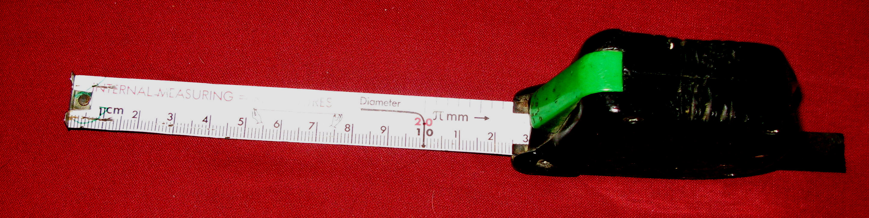 "Talmeter" - a band ruler.